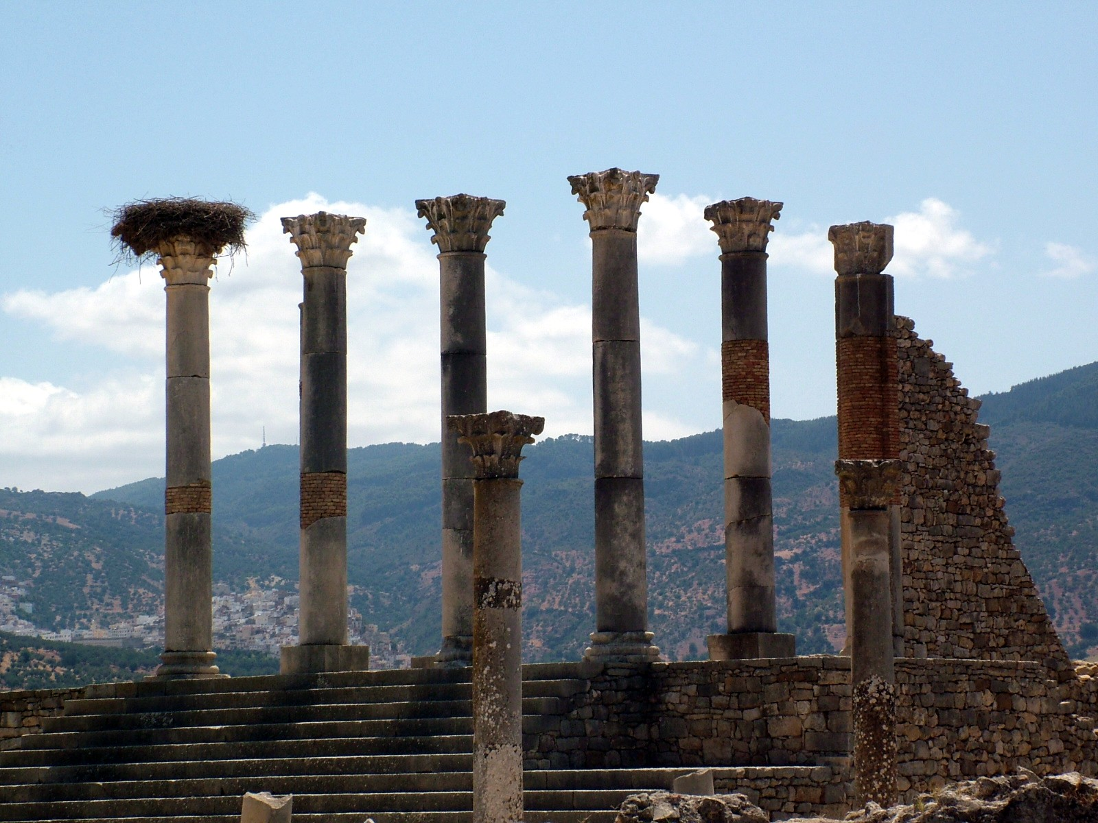 Volubilis (Capitol), Morocco. There is a stork nest on one of the columns.